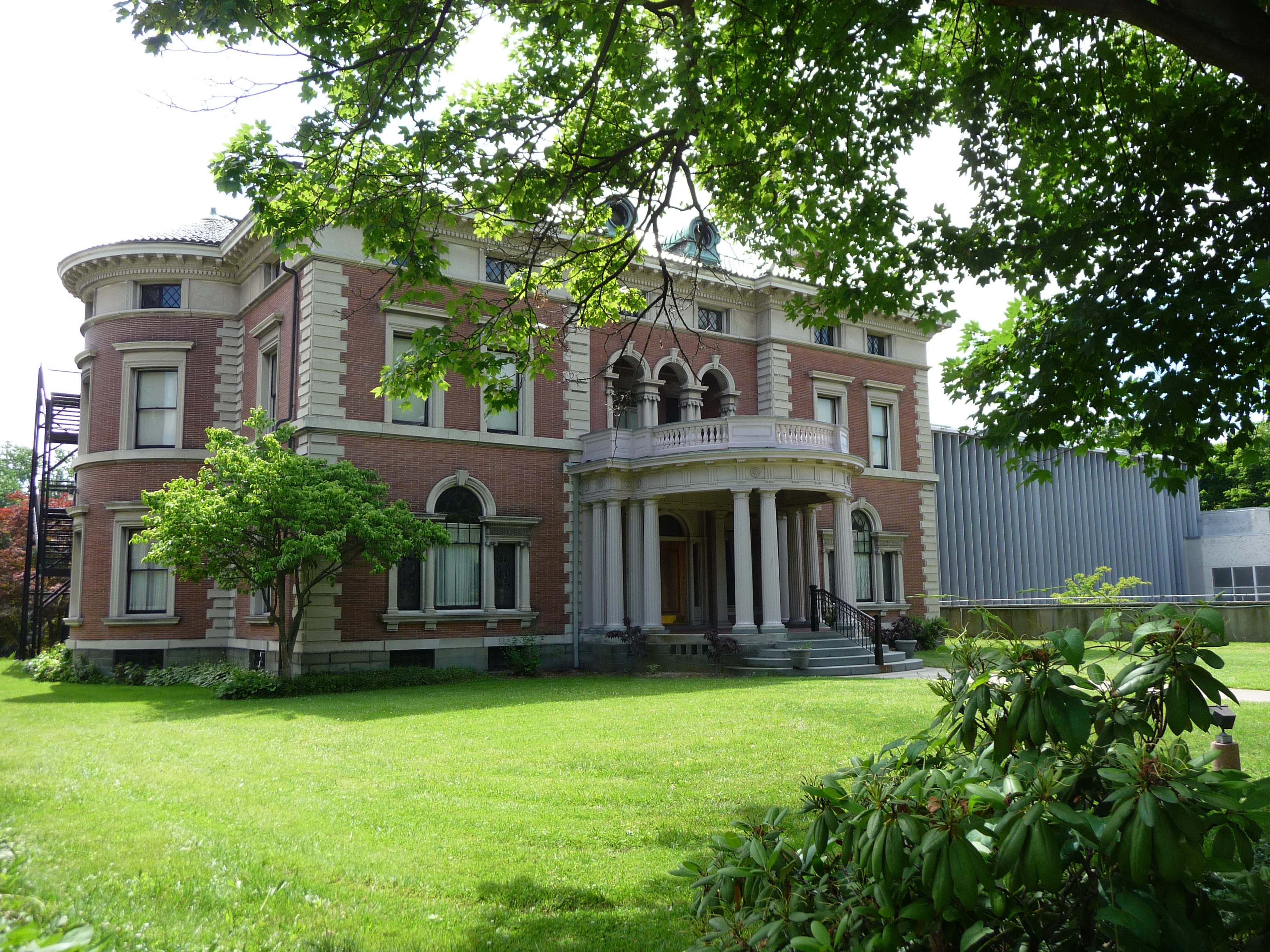 The Roberson Mansion with a wing of the attached Museum.